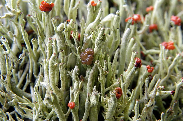 Picture taken in Commanster, Belgian High Ardennes . Species: Cladonia gracilis